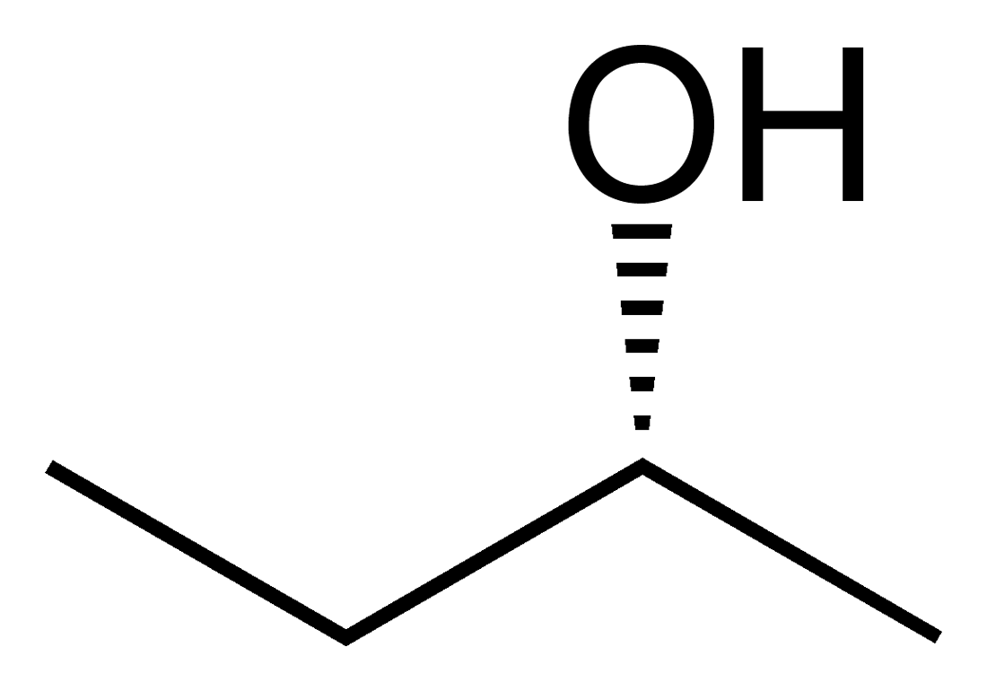 Skeletal formula of the (R)-butan-2-ol molecule, C4H10O.